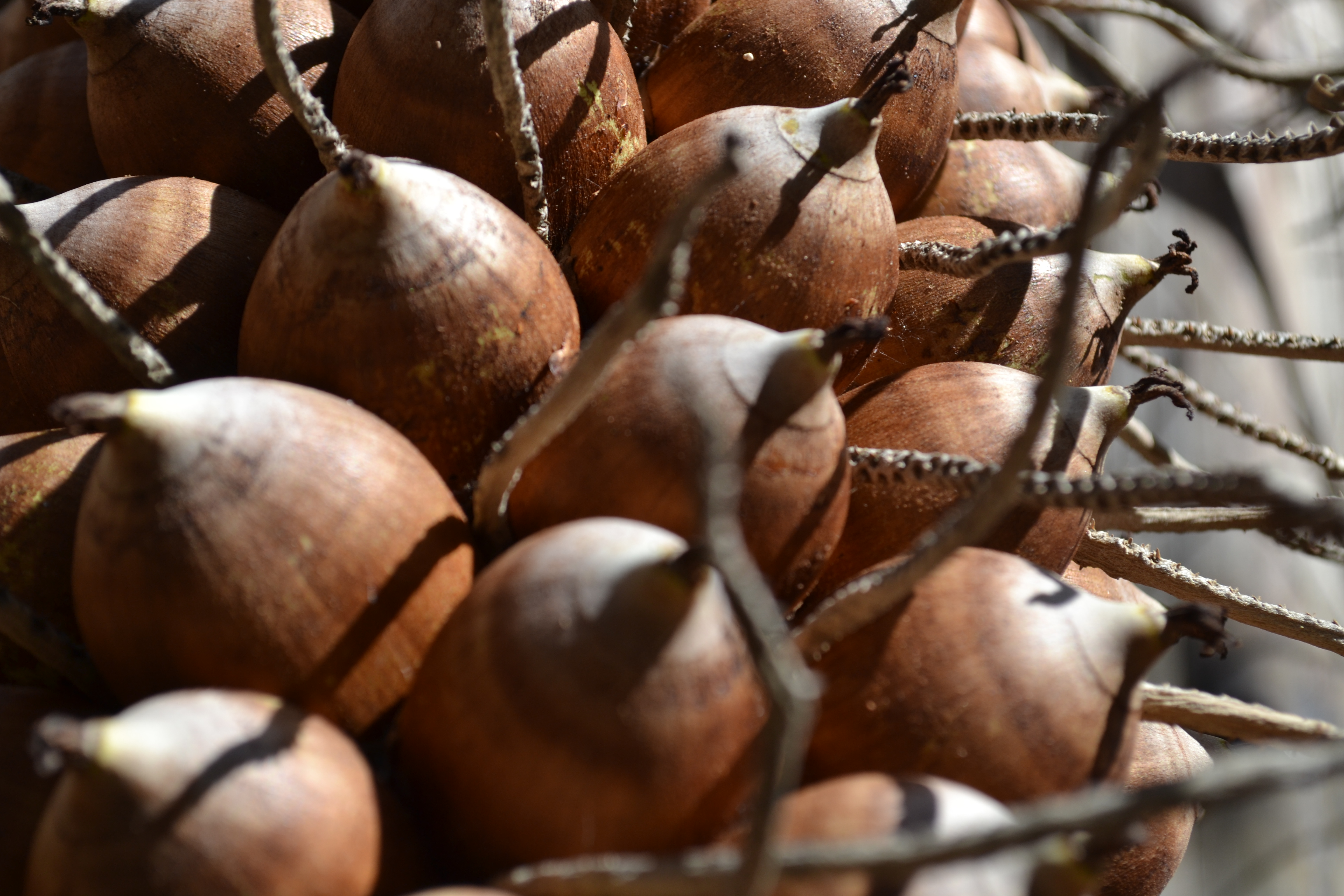 Babassu/babaçu coconut (Attalea speciosa) - Maranhão State, Brazil